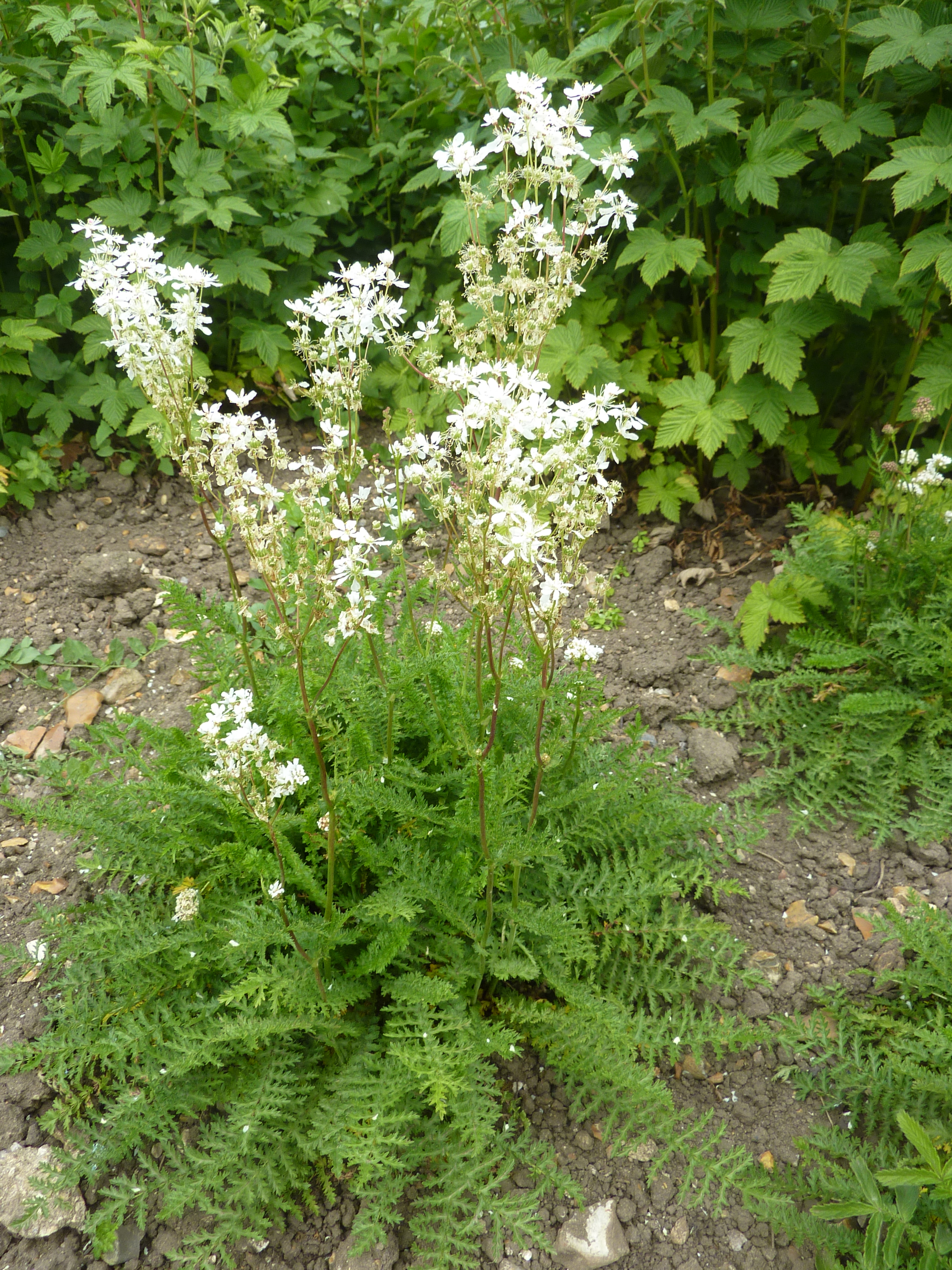 Taken in the Cambridge University Botanic Garden